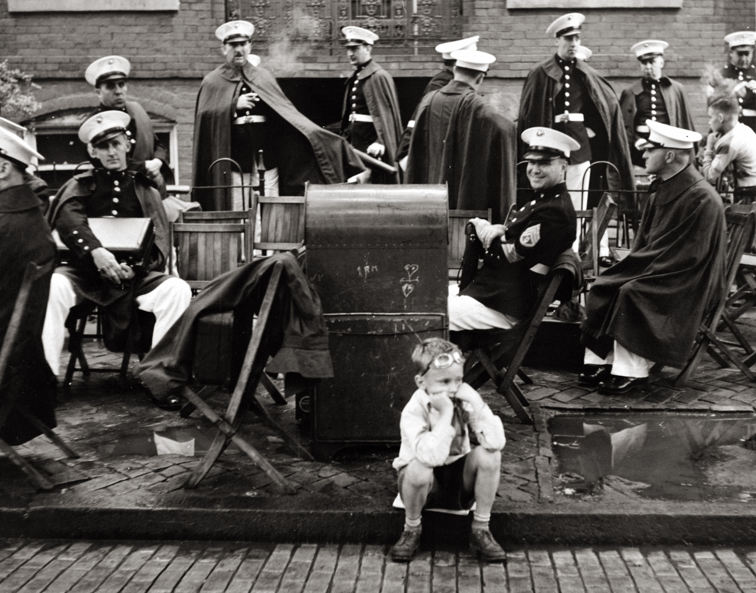 A young boy waits for a military parade to begin on N Street, SW in Washington, D.C.